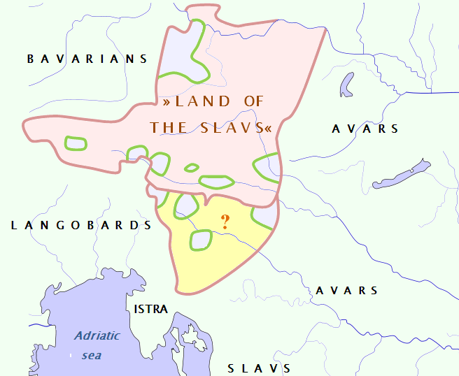 Marca Vinedorum –en version. Compare with: Čepič et al. (1979): Zgodovina Slovencev. Ljubljana, Cankarjeva založba. Page 105; Korošec Paola (1990). Alpski Slovani. Ljubljana. Znanstveni inštitut Filozofske fakultete. Page 18; Božič et al (1999). Zakladi tisočletij: zgodovina Slovenije od neandertalca do Slovanov. Ljubljana, Založba Modrijan. Page 234; Štih, P. (1986). Ozemlje Slovenije v zgodnjem srednjem veku: Osnovne poteze zgodovinskega razvoja od začetka 6. stoletja do konca 9. Stoletja. Ljubljana, Filozofska fakulteta. Page 30.